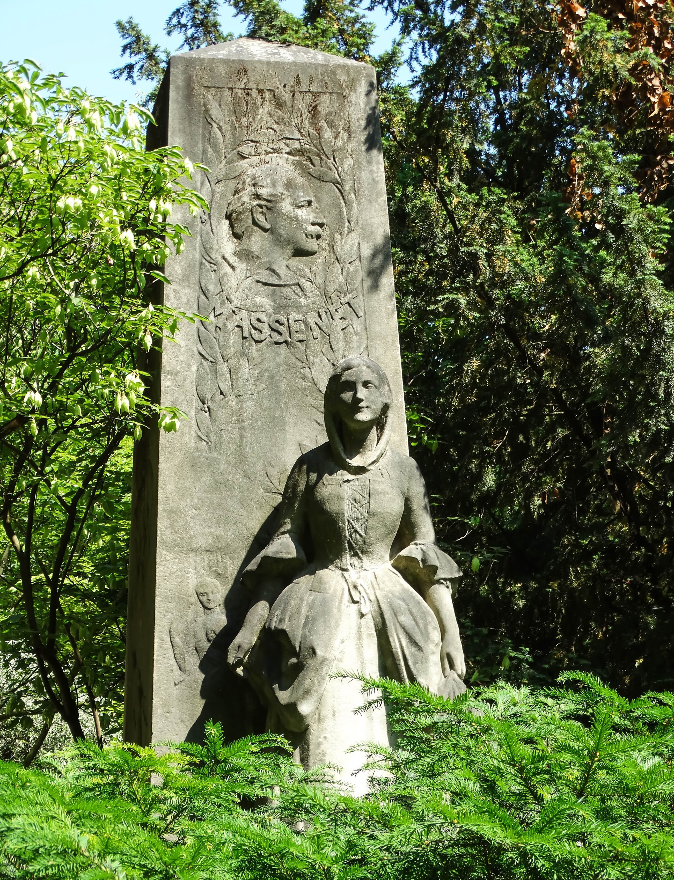 A tall monument dedicated to Jules Massenet, within the Luxembourg Gardens, made by Raoul Verlet and Paul Jean-Baptiste Gasq.